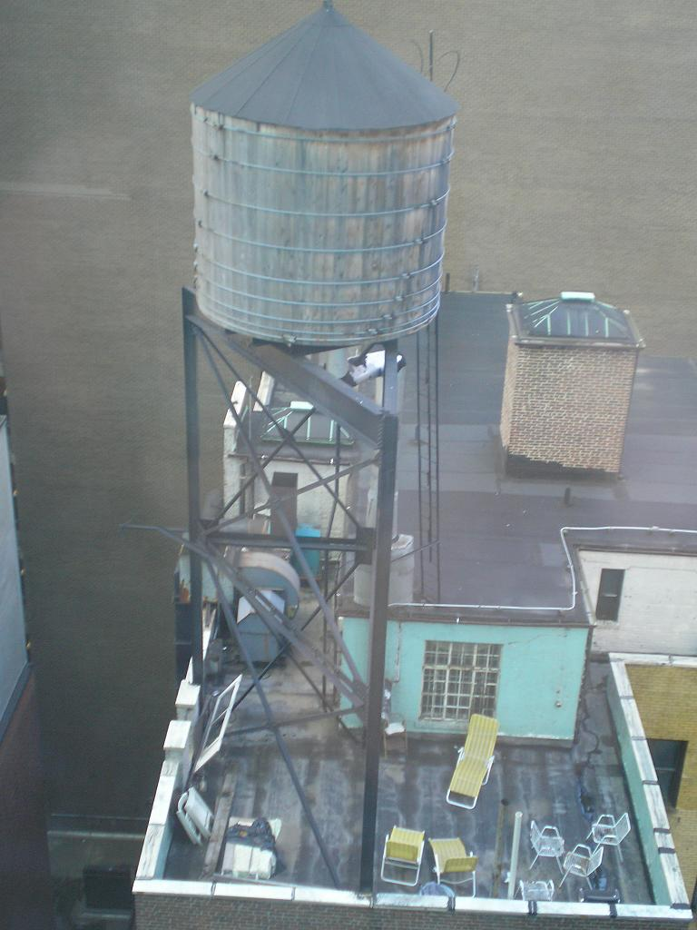 Water towers are ubiquitous in the New York City skyline.